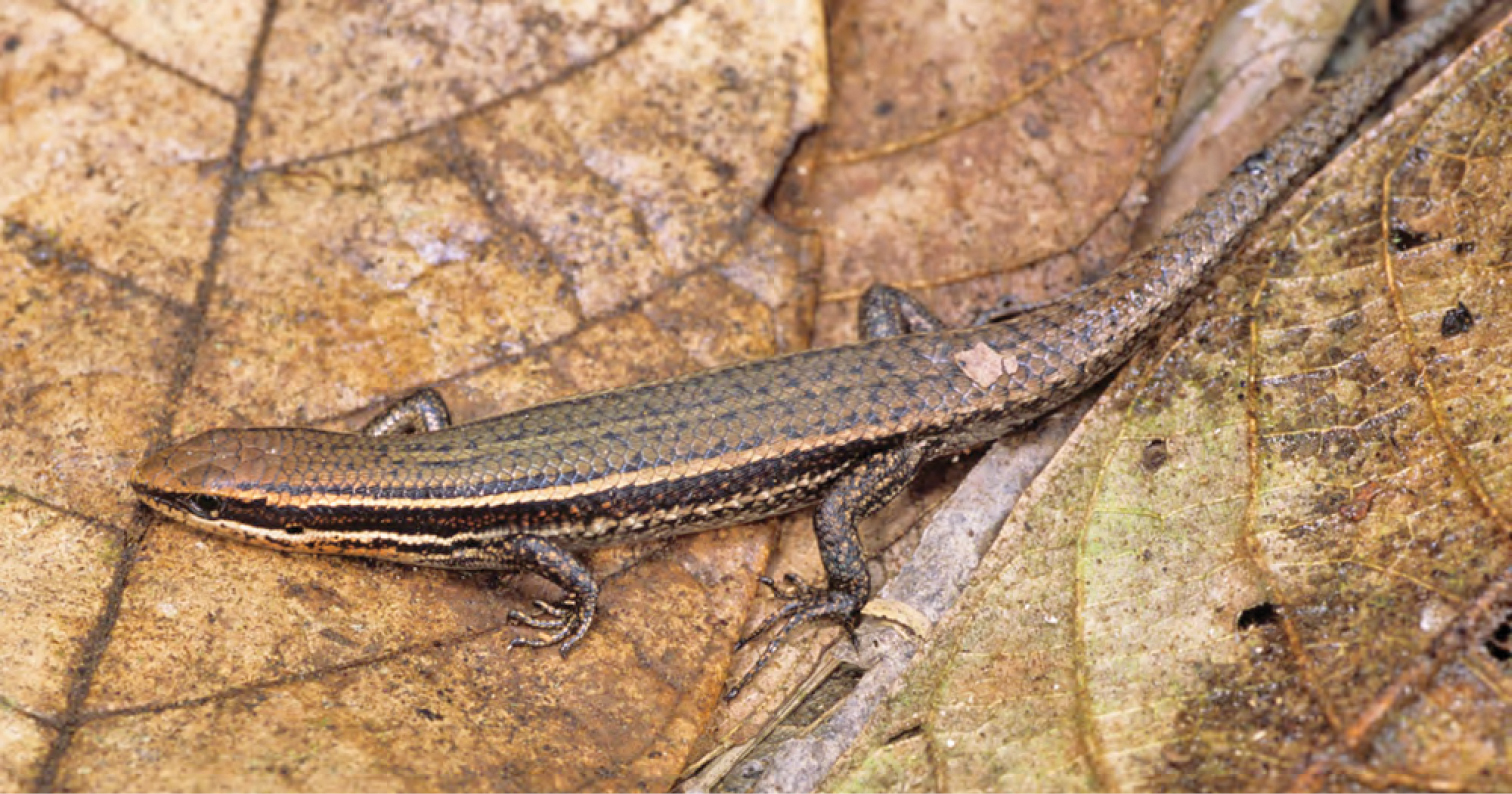 Eutropis cumingi (uncataloged specimen in PNM) from mid-elevation, Mt. Cagua. Photo: ACD.